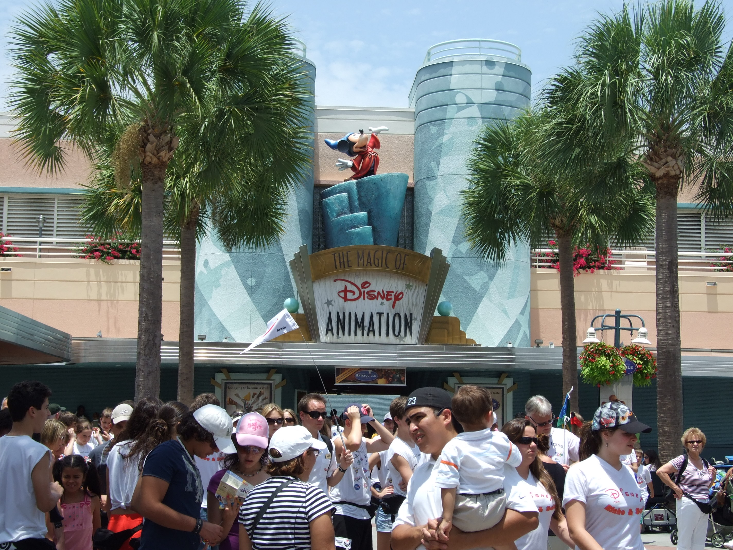 Uploaded by photographer.